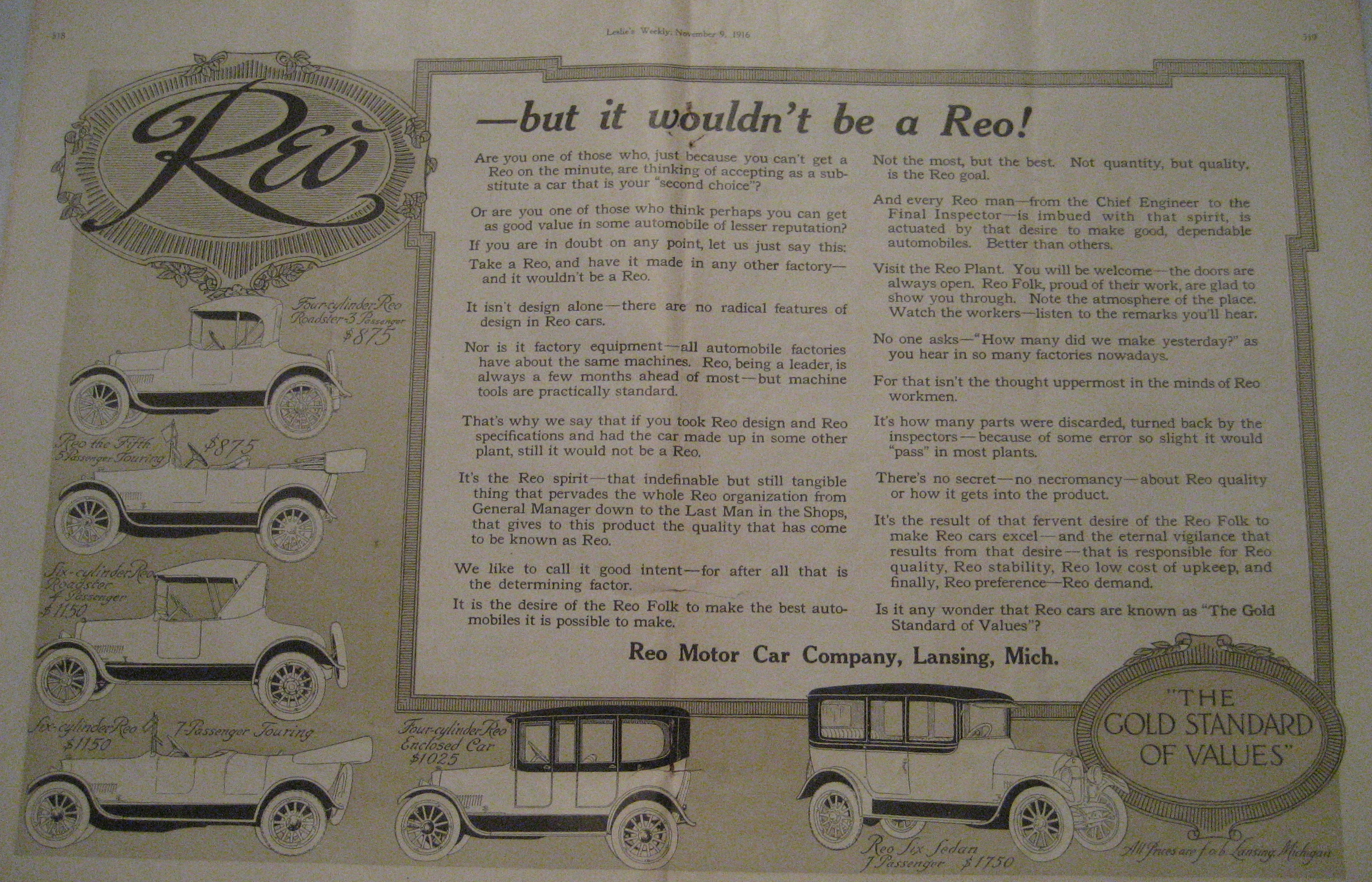 Two page advertisement spread for Reo Motor Car Company, as printed in Leslie's Magazine, 9 November, 1916. Shows illustrations of 6 current models of Reo cars with prices and descriptions.